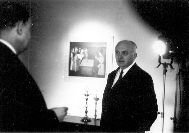 Otakar Vávra filming Europe was dancing the waltz movie.